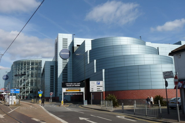 Centrale Shopping Centre This shopping centre opened early in the 21st century, and now has its own tram stop.